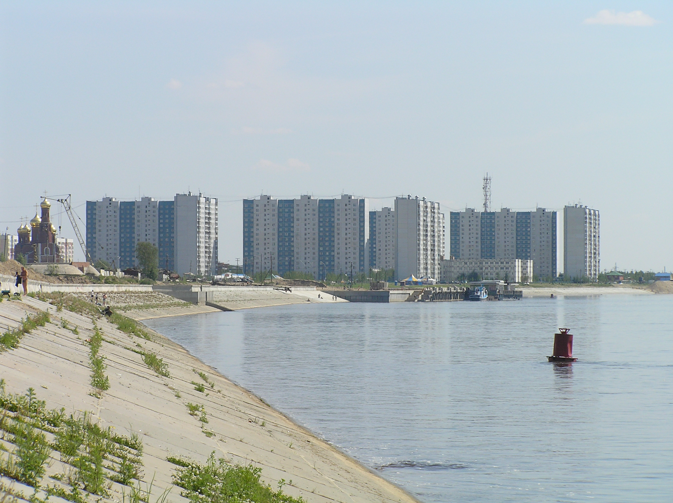 In embankment Ob (Russia).